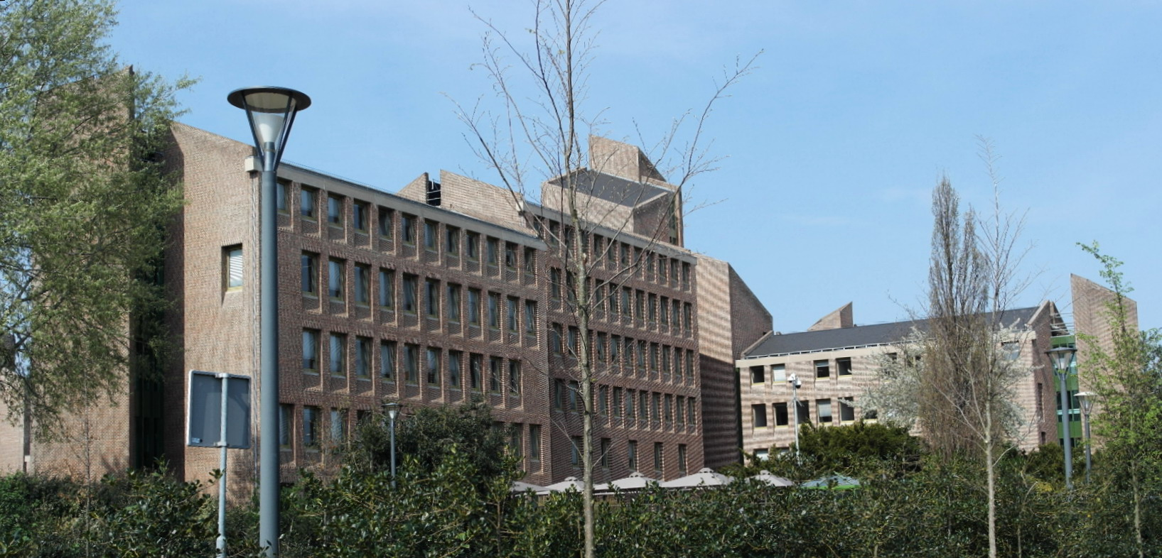 Maastricht, the Netherlands. View of provincial government buildings (Gouvernement) in the southeastern Randwyck business district.